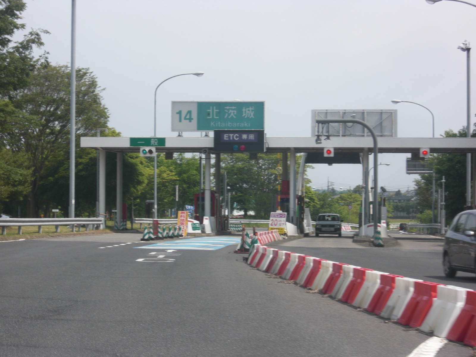 This is an interchange in Joban Expressway.